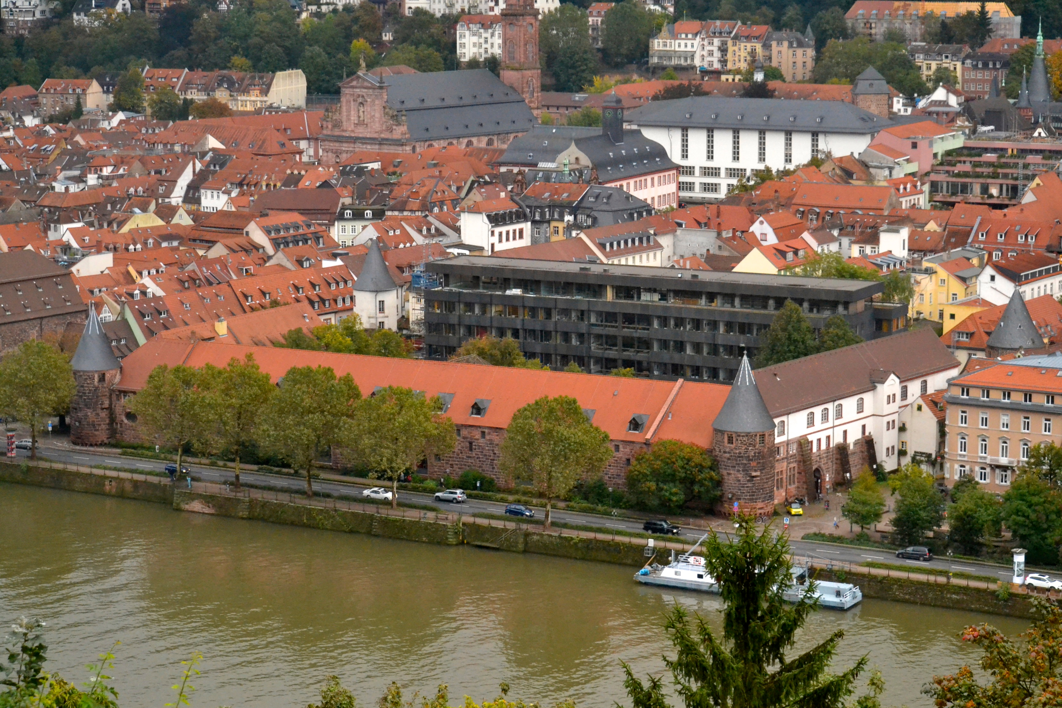 Heidelberg University’s 600-year-old mess hall.